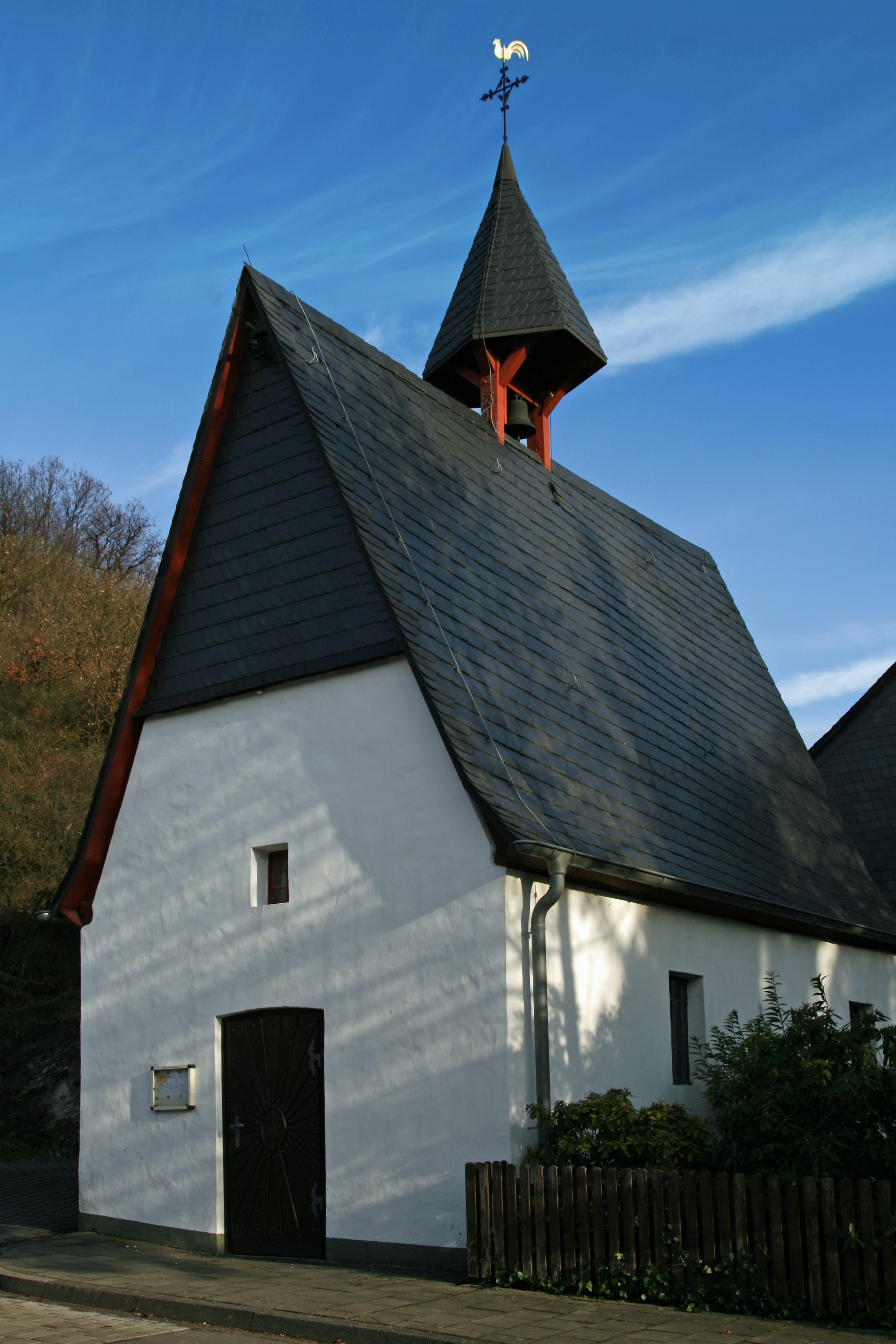 Chapel in Burglahr